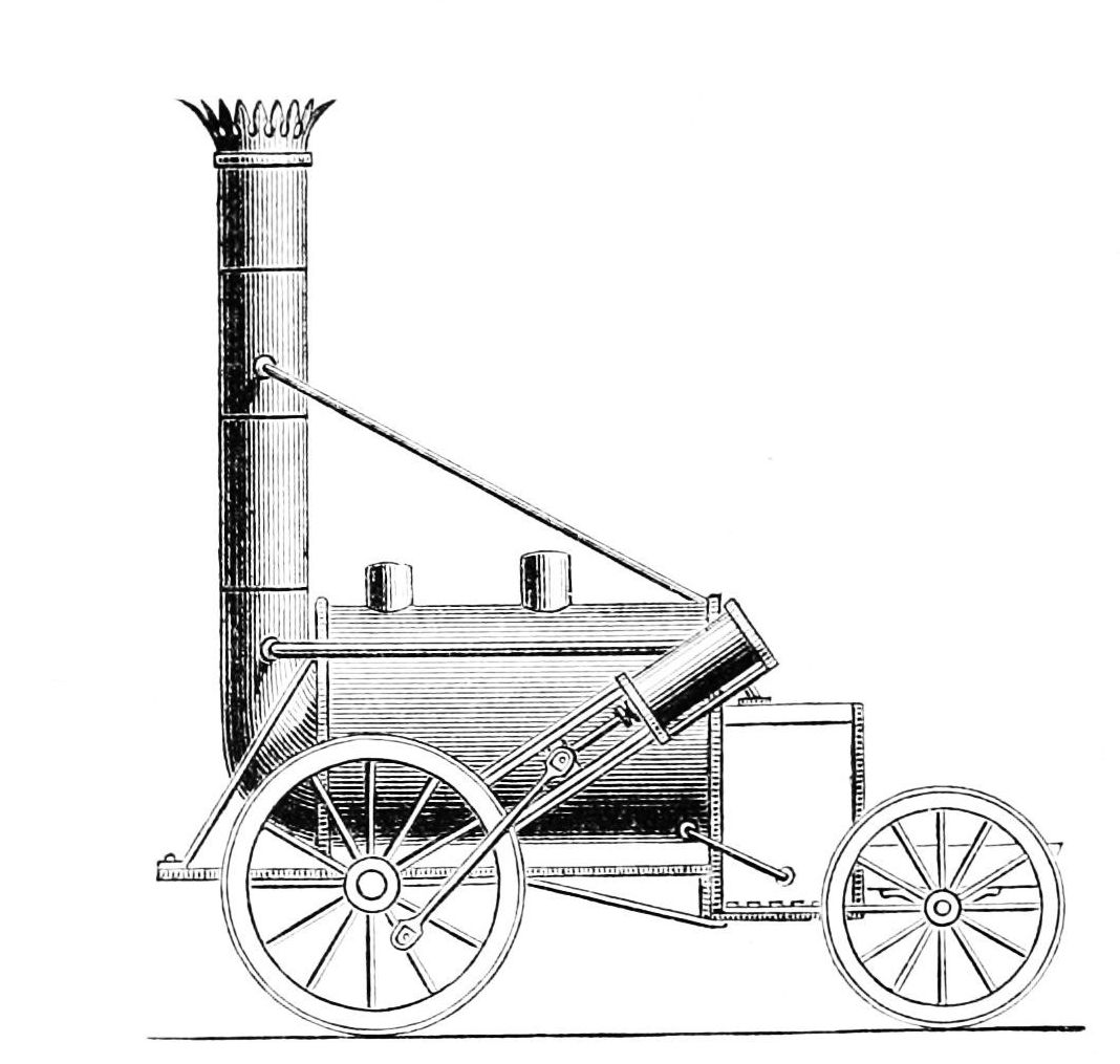 The Rocket 1829